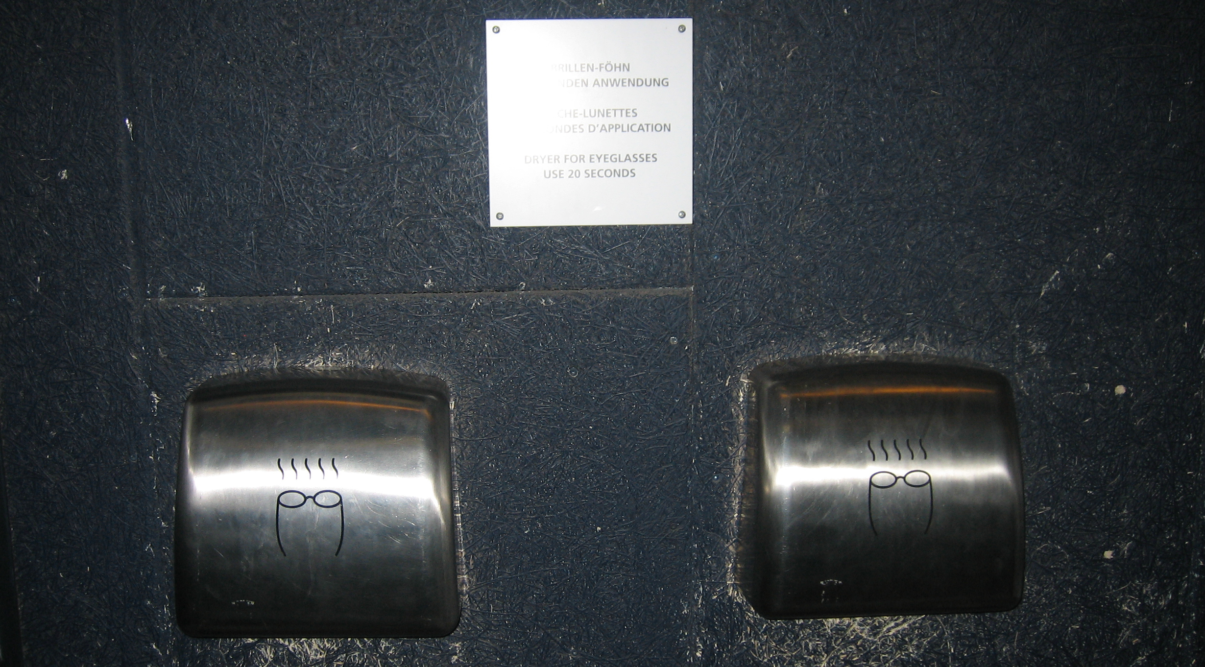 Eyeglass heater in the Masoala Hall, Zoo Zürich